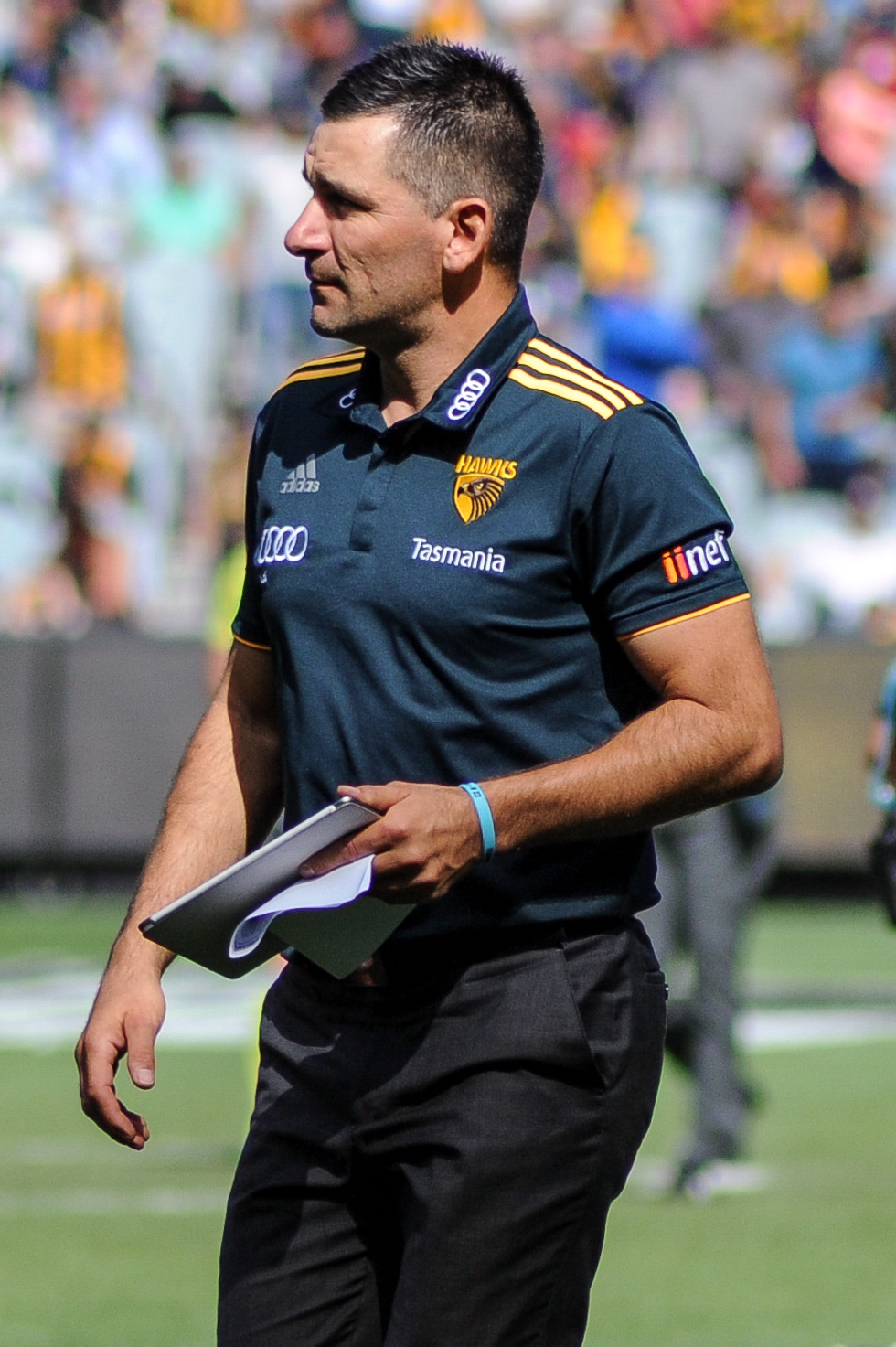 Adem Yze during the AFL round two match between Hawthorn and Adelaide on 1 April 2017 at the Melbourne Cricket Ground in Melbourne, Victoria.